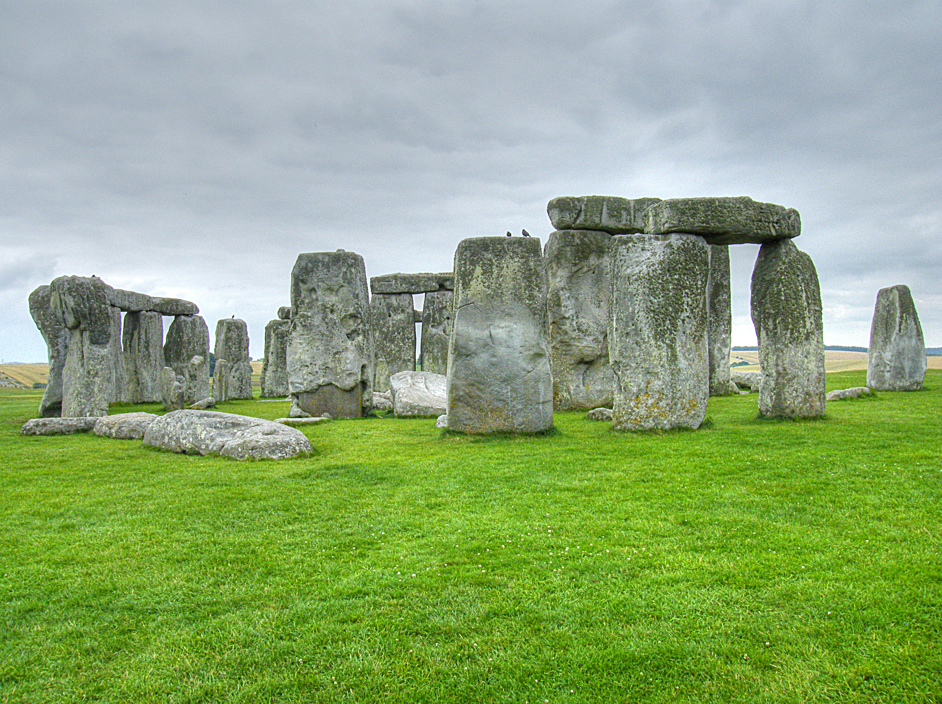 Face noroeste de Stonehenge, na Inglaterra, a cerca de 100km de Londres. 4.500 anos de mistérios / Northwest face of Stonehenge, UK, about 100km from London. 4.500 years of mystery.